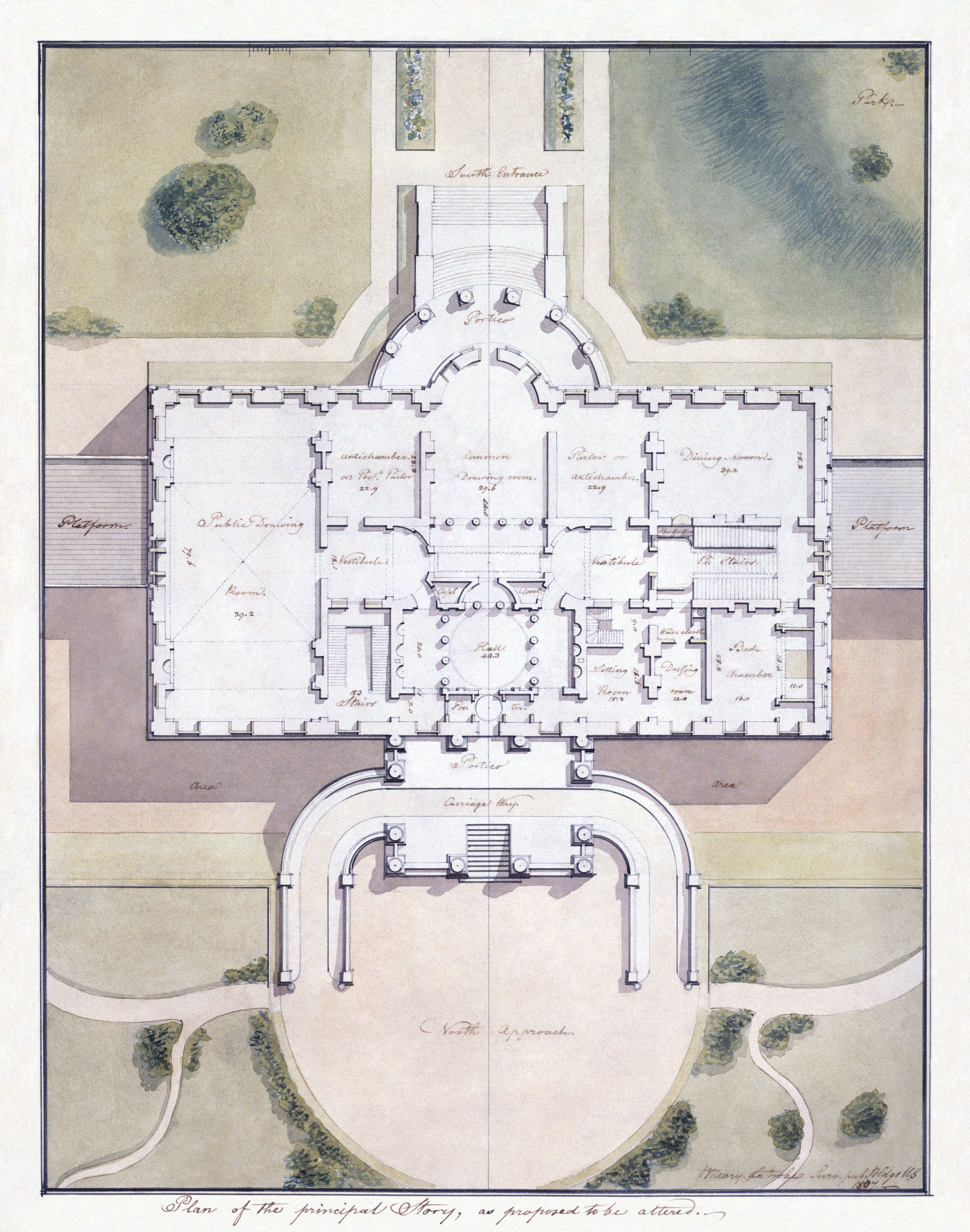 The White House, Washington, D.C. Site plan and principal story plan, architectural design.